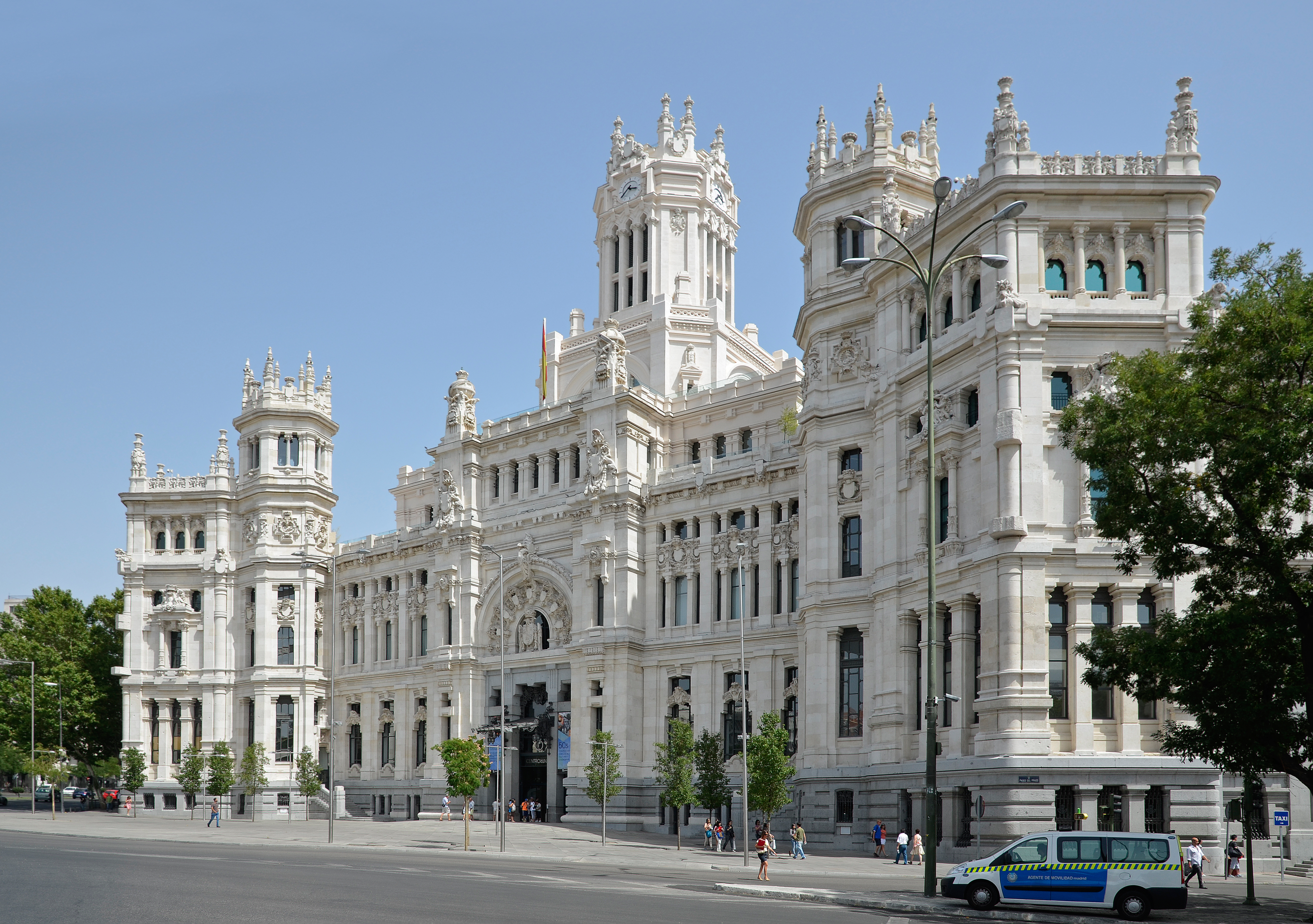 Palacio de Comunicaciones, Plaza de Cibeles (square) in Madrid (Spain).